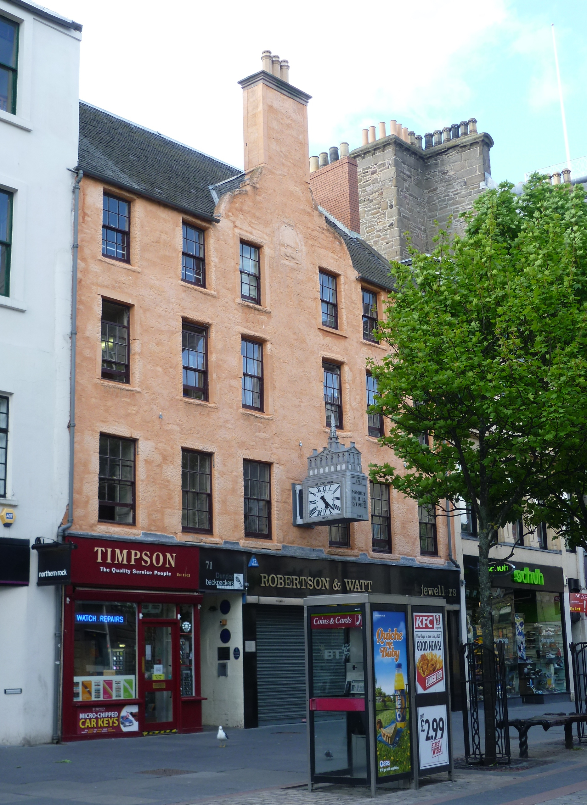 A complex of buildings incorporating a 16th-century merchant's house.